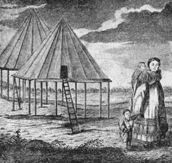 Kamchadal and their summer dwellings.